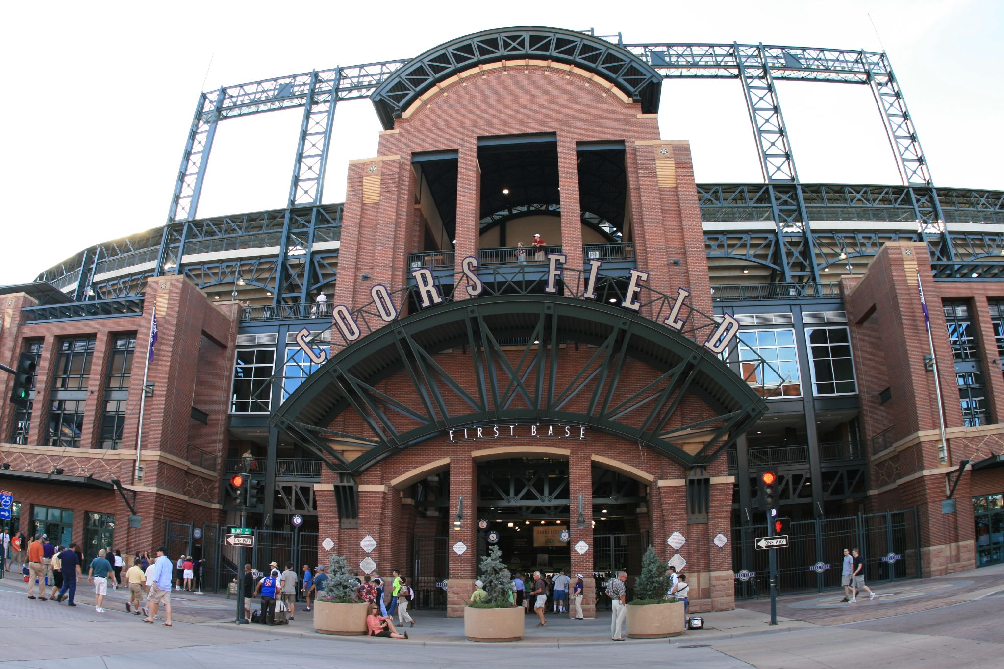 Coors Field, Denver, Colorado, US